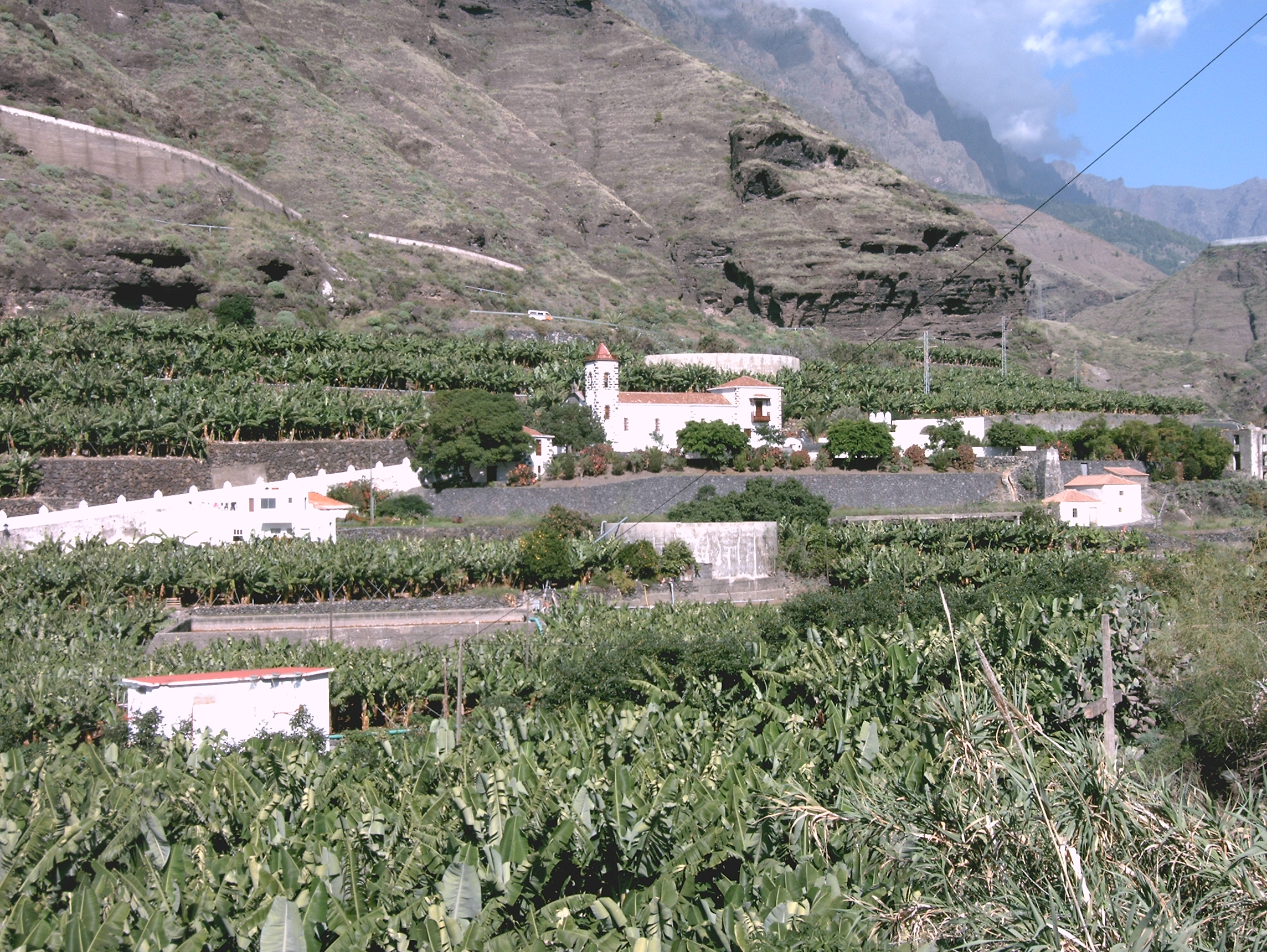 Nuestra Señora de Las Angustias in Los Llanos de Aridane, right below the church the watermill with inlet channel, on the northern slope the highway LP-1.